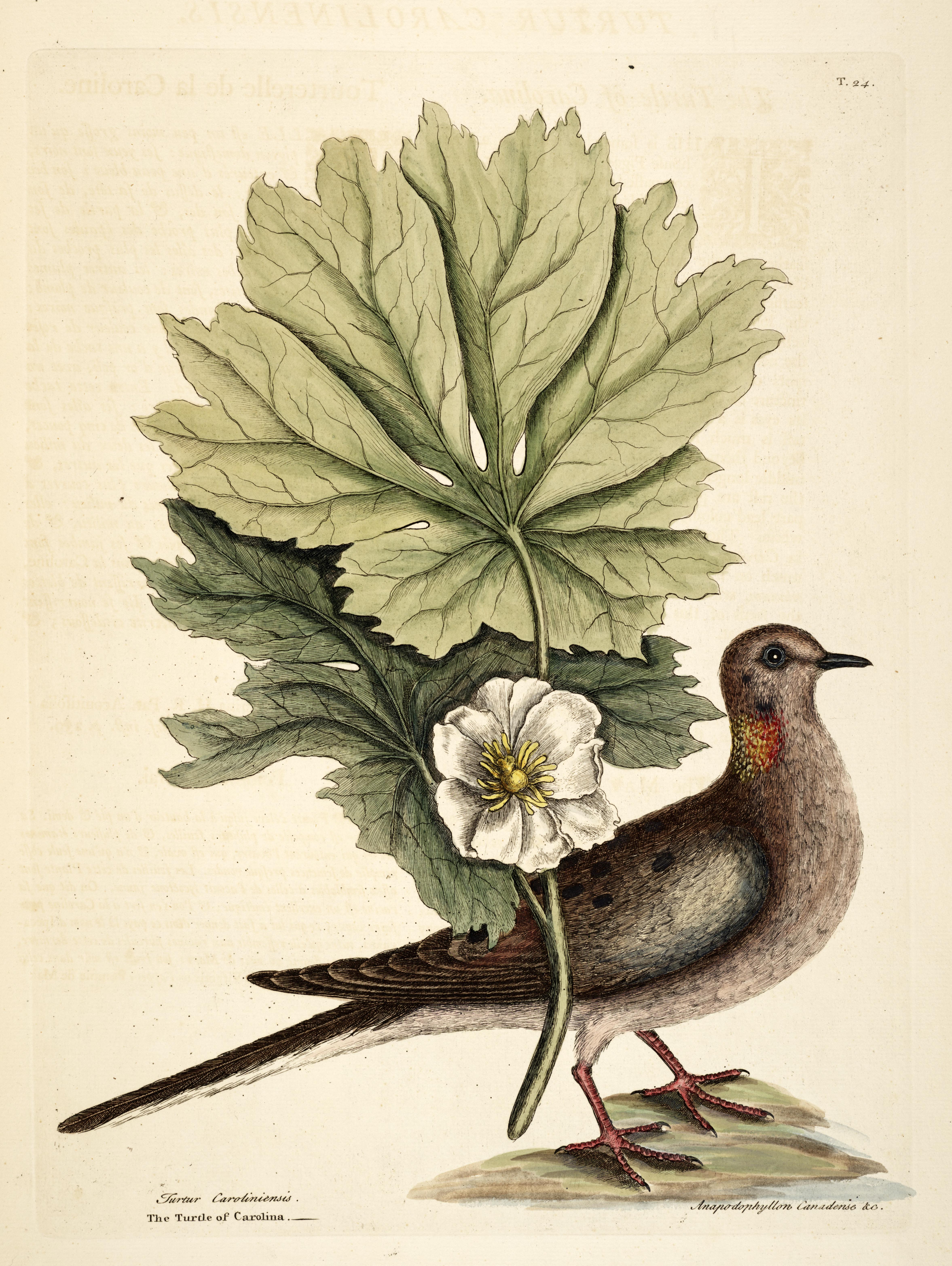 Plate 24 in Volume 1 of The Natural History of Carolina, Florida and Bahamas by Mark Catesby, George Edwards published in 1754. The plant is mentioned as Anapodophyllon canadense